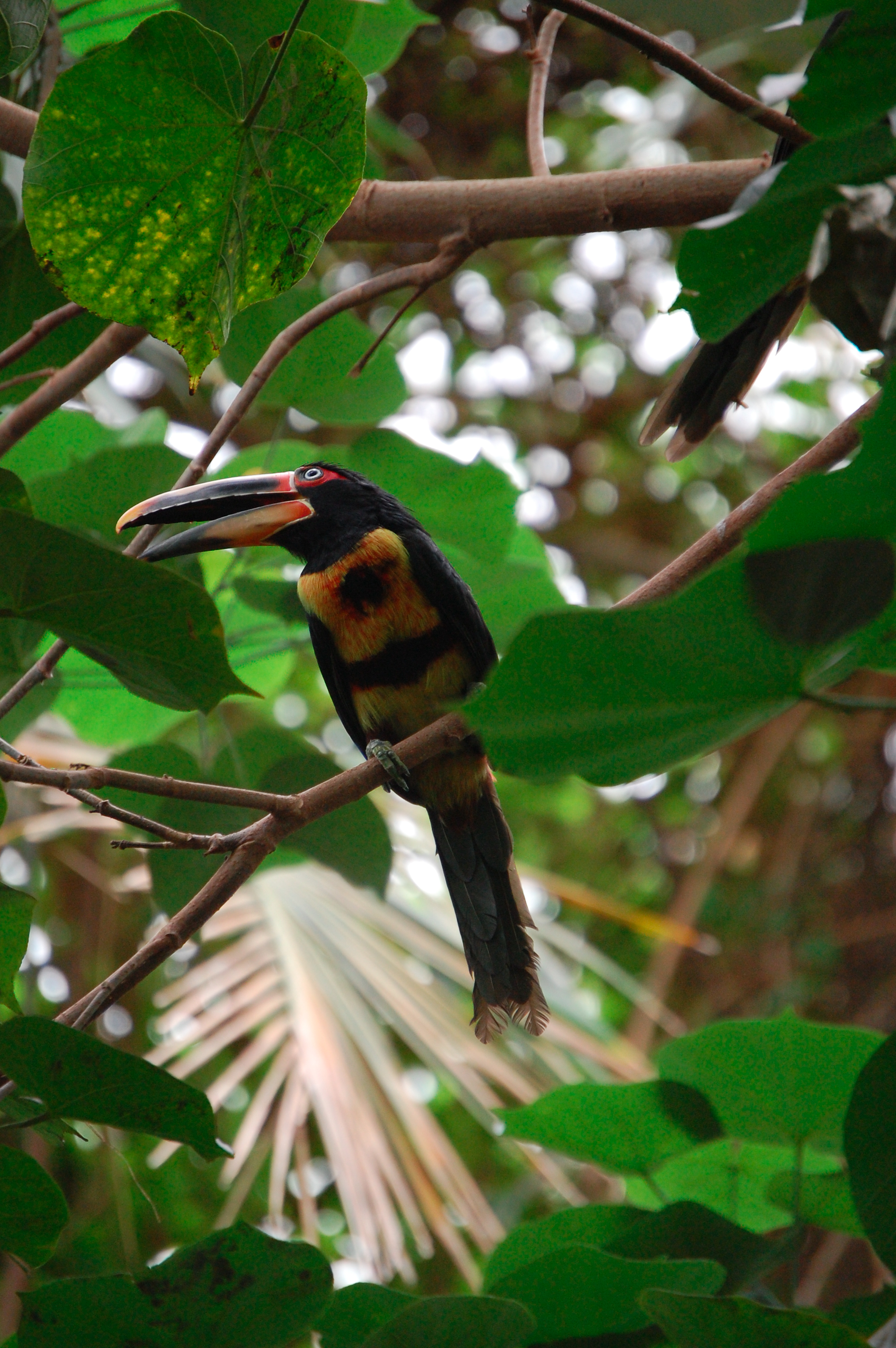 A Pale-mandibled Aracari at Dallas World Aquarium, USA.